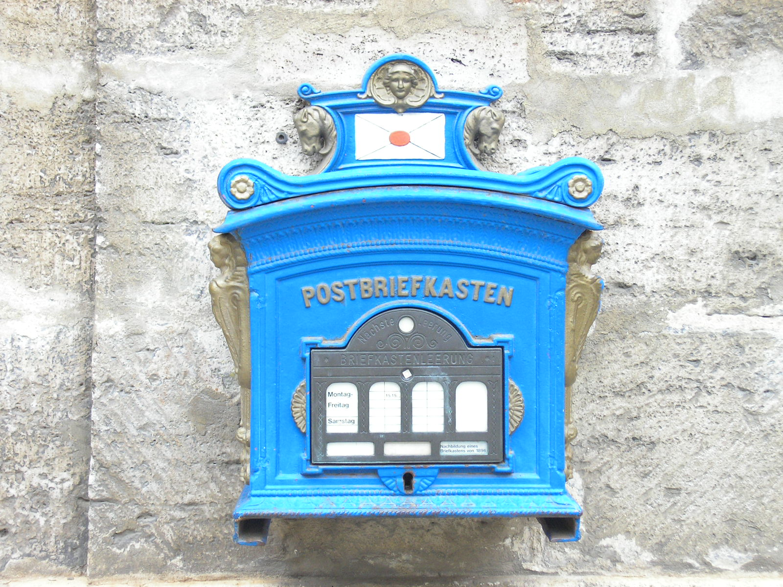 Ein alter Briefkasten am Rathaus von Bad Langensalza (Thüringen)